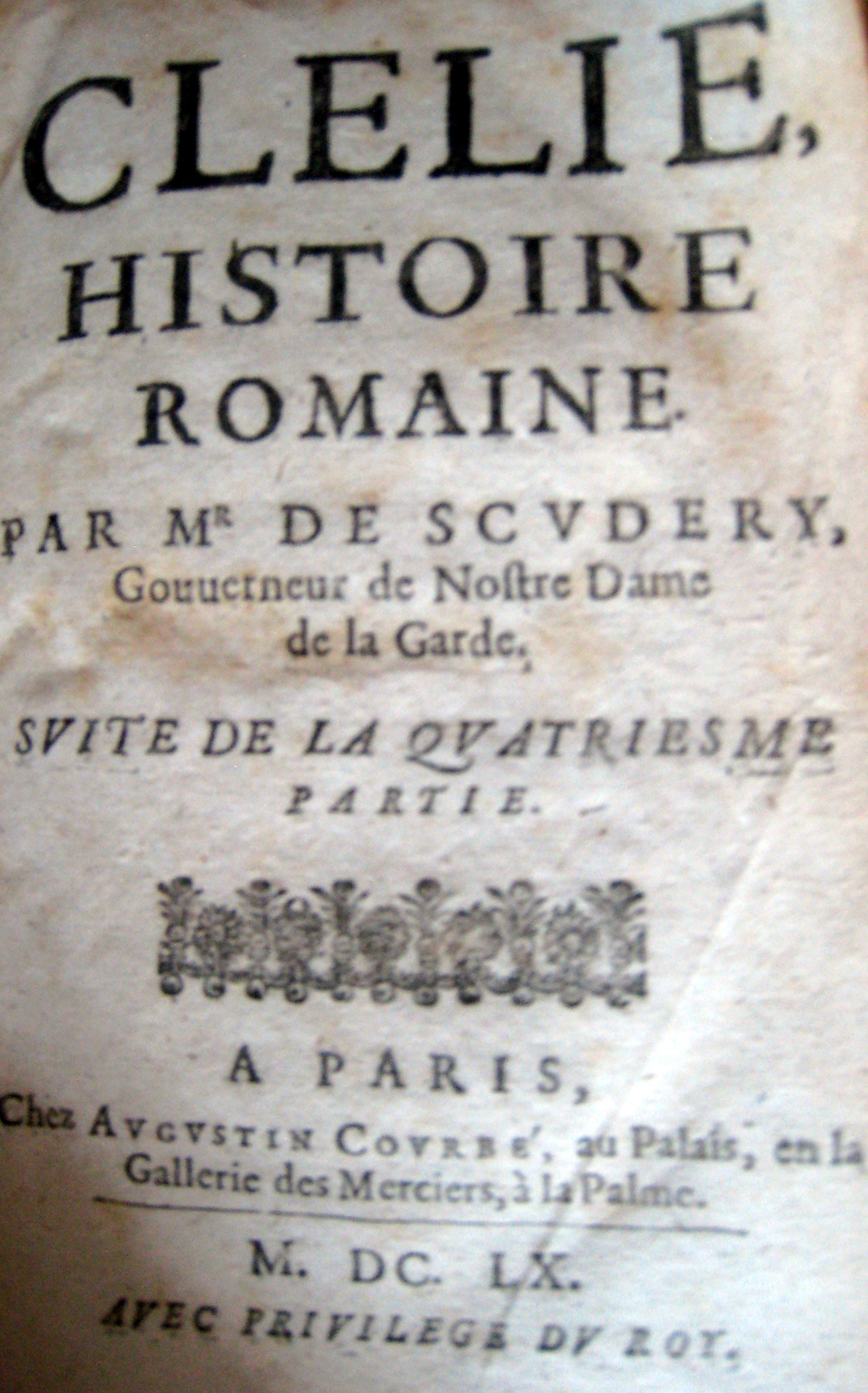 Tittelbladet til romanen fra 1660